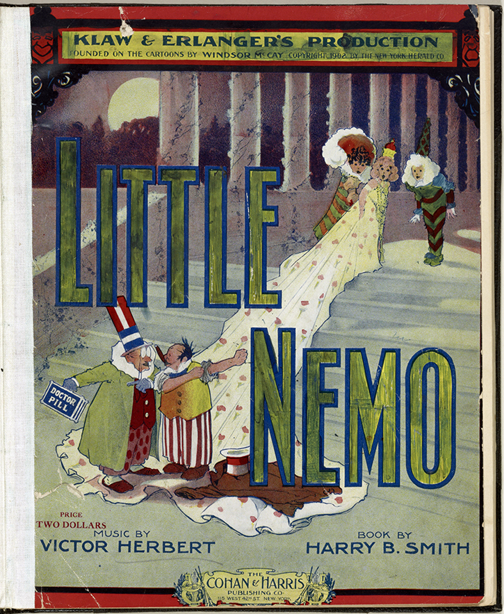 Cover to the score of the 1908 musical production Little Nemo